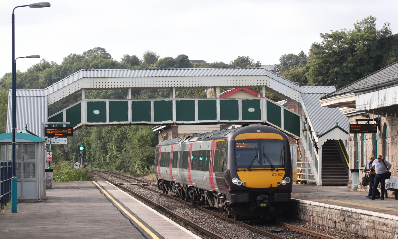 CrossCountry 'TurboStar' 170521 arrives at Chepstow with a Cardiff to Nottingham service.